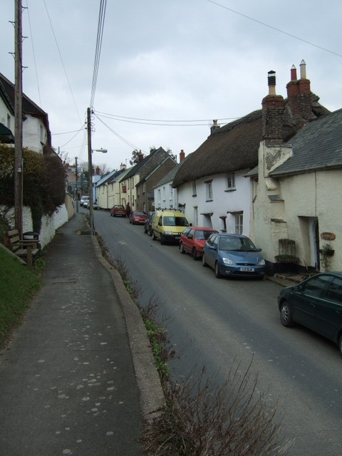 Goodleigh. View up the main street, to the East